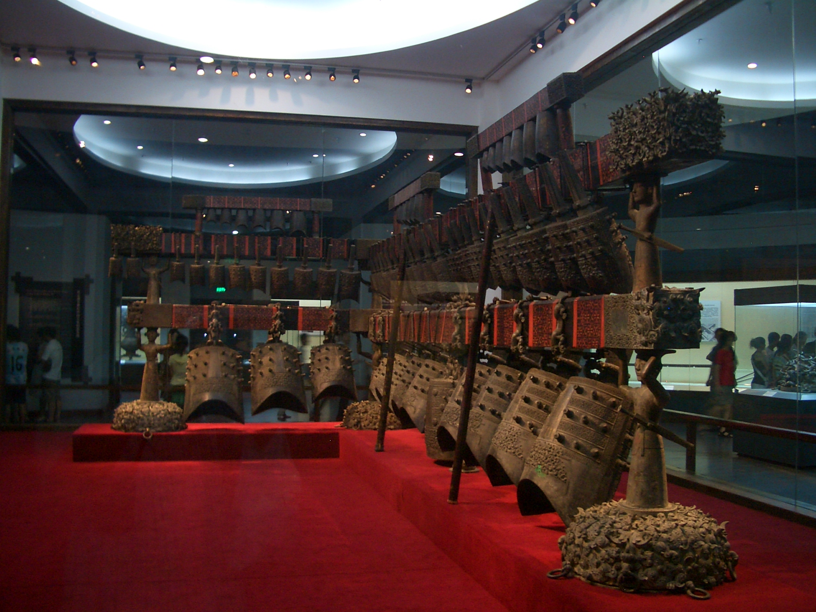 The bianzhong bell set in Hubei Provincial Museum